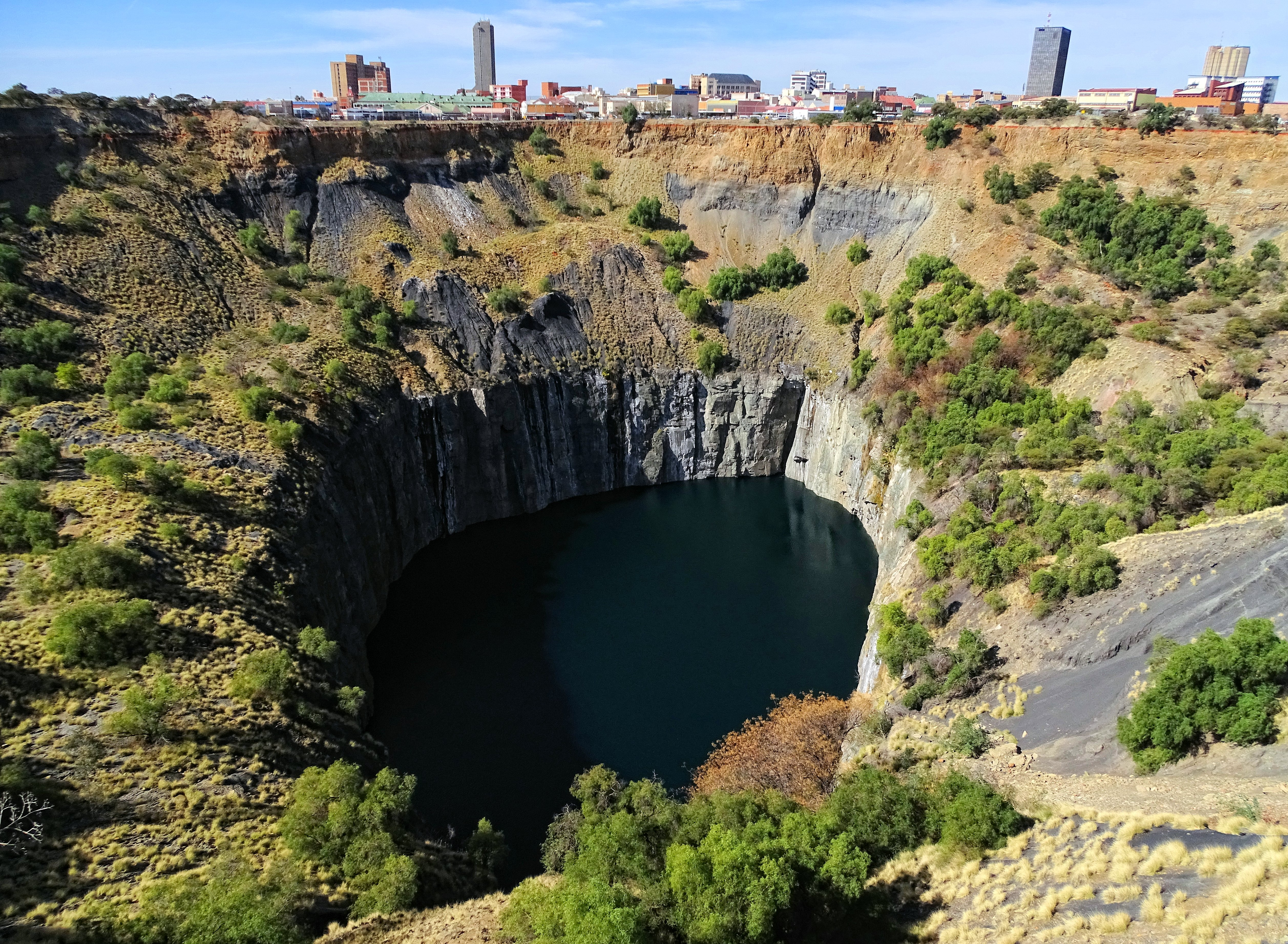 A view of the business centre of Kimberley, Northern Cape, South Africa, seen from the viewing platform at The Big Hole Open Mine Museum.